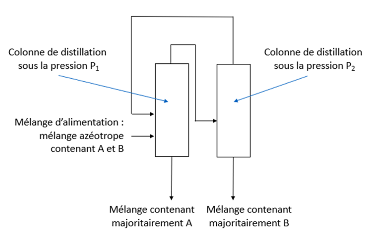 Pressure-swing distillation